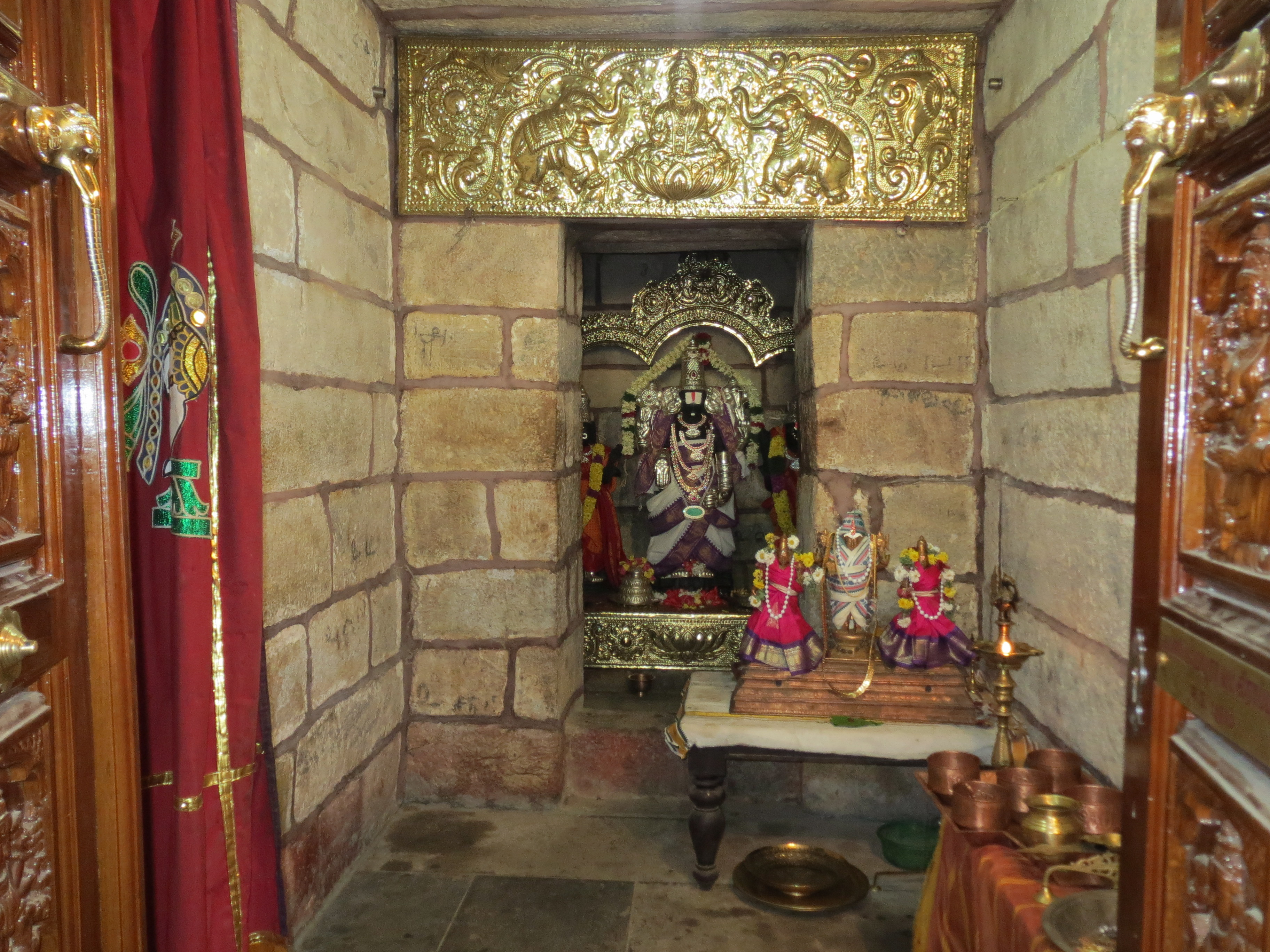 sanctum of the main deity, Venkatesaperumal - Venkatesaperumal temple, parameswaranpalayam (coimbatore)